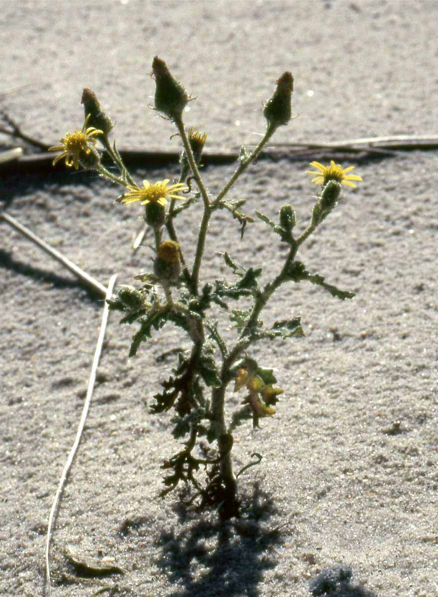 Senecio viscosus, Heligoland (Germany)